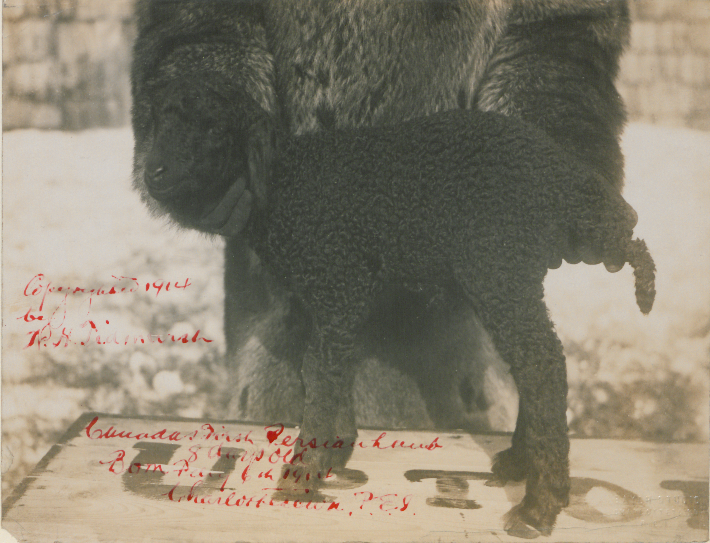 Canada's first Persian lamb. (8 days old.).